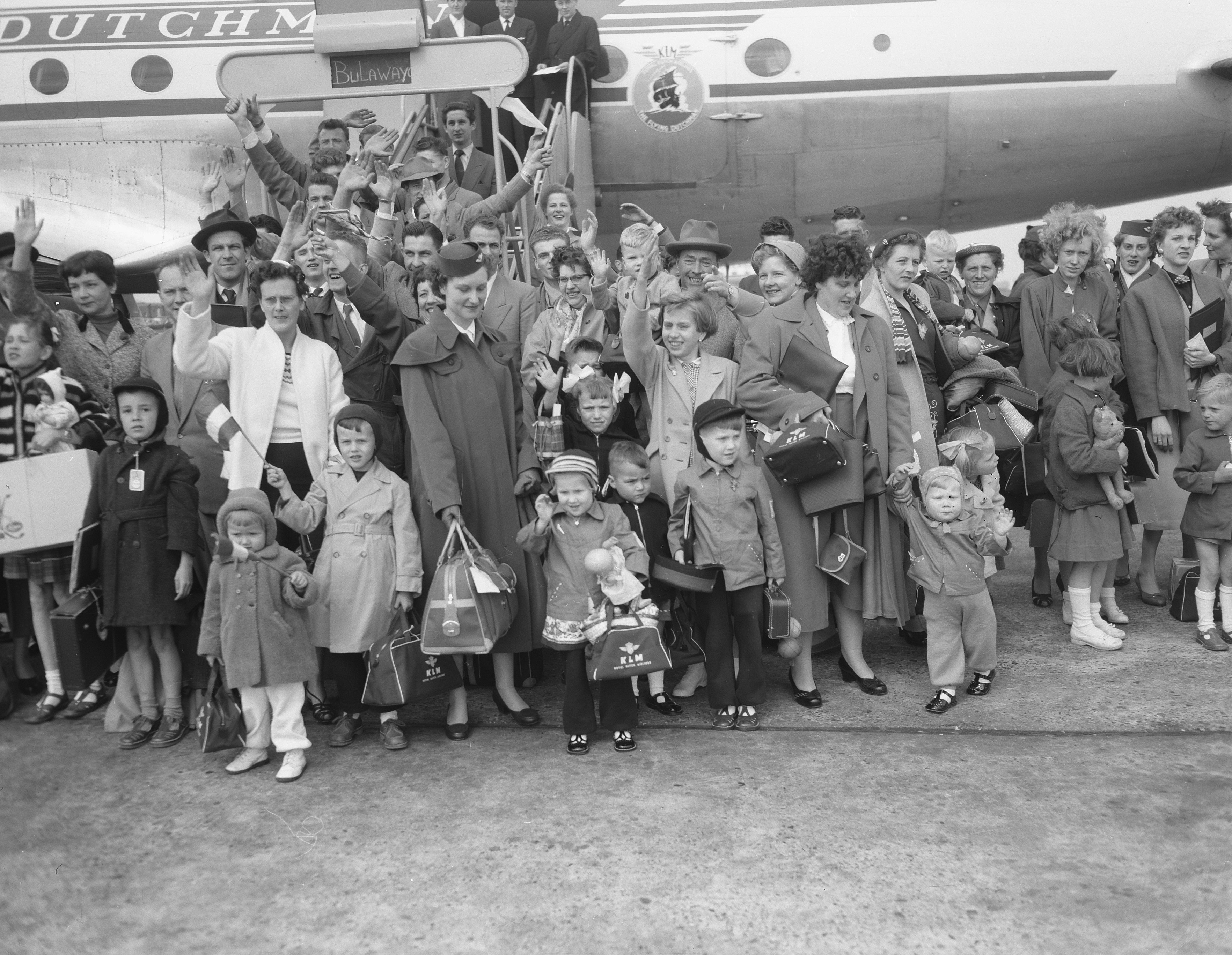 Schiphol Ariport, 18 April 1955; Dutch emigrants to Rhodesia (500th flight)